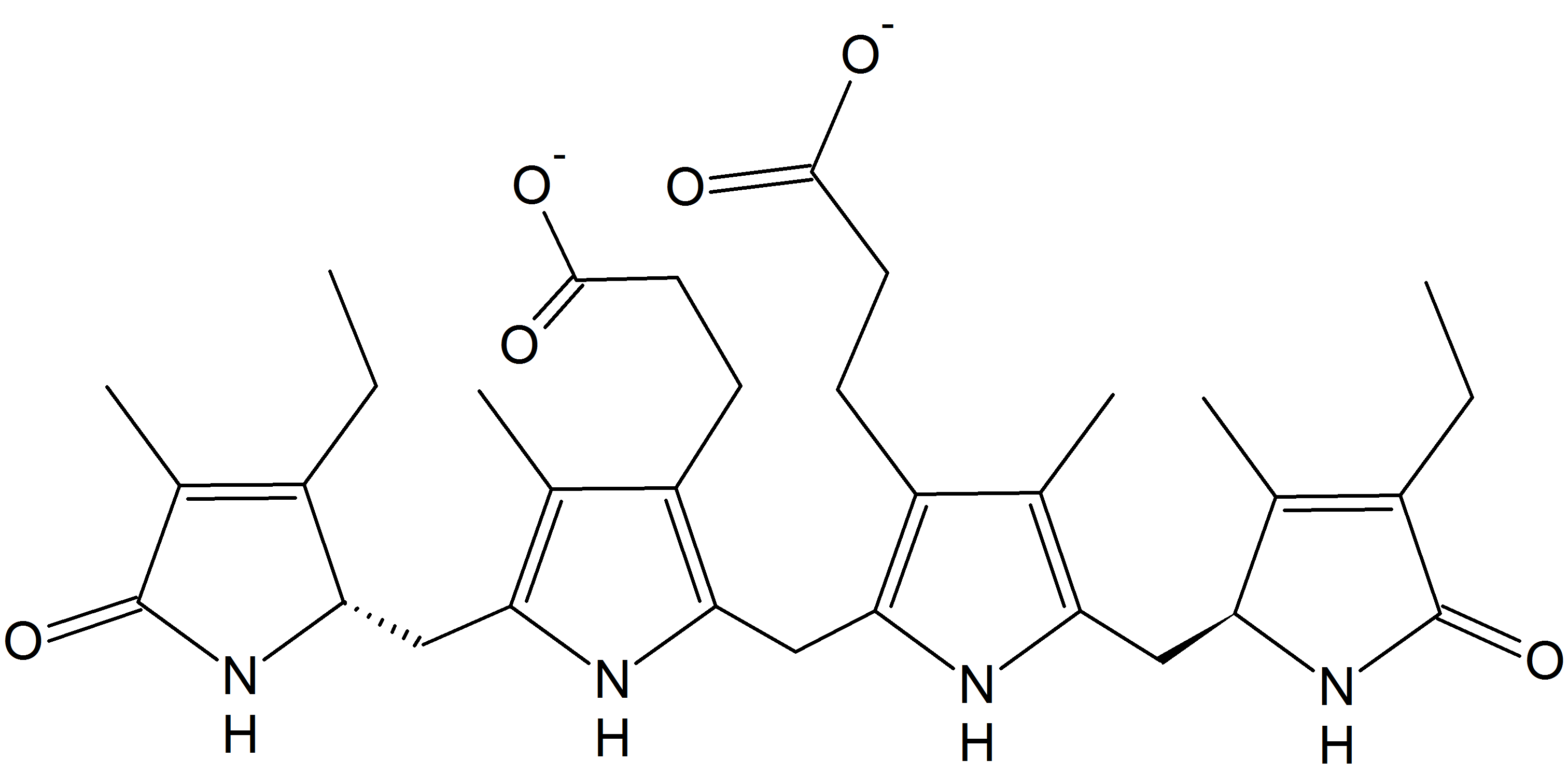 Structure of urobilinogen